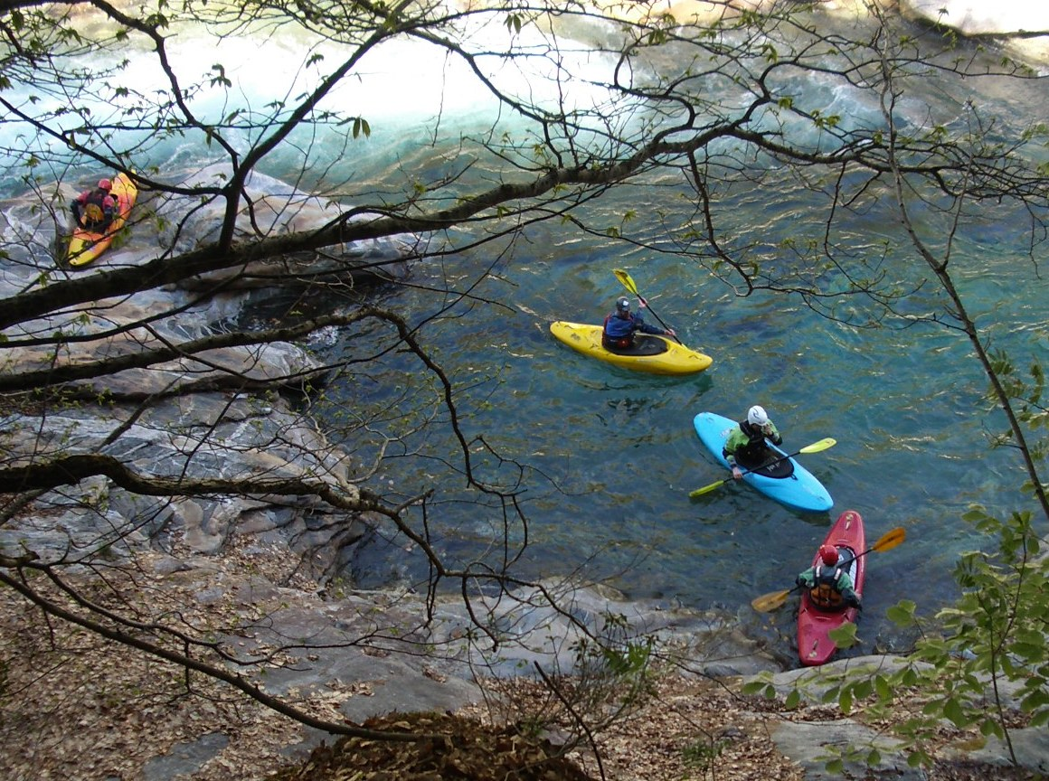 Verzasca, Ticino, Switzerland self-made, May 2006